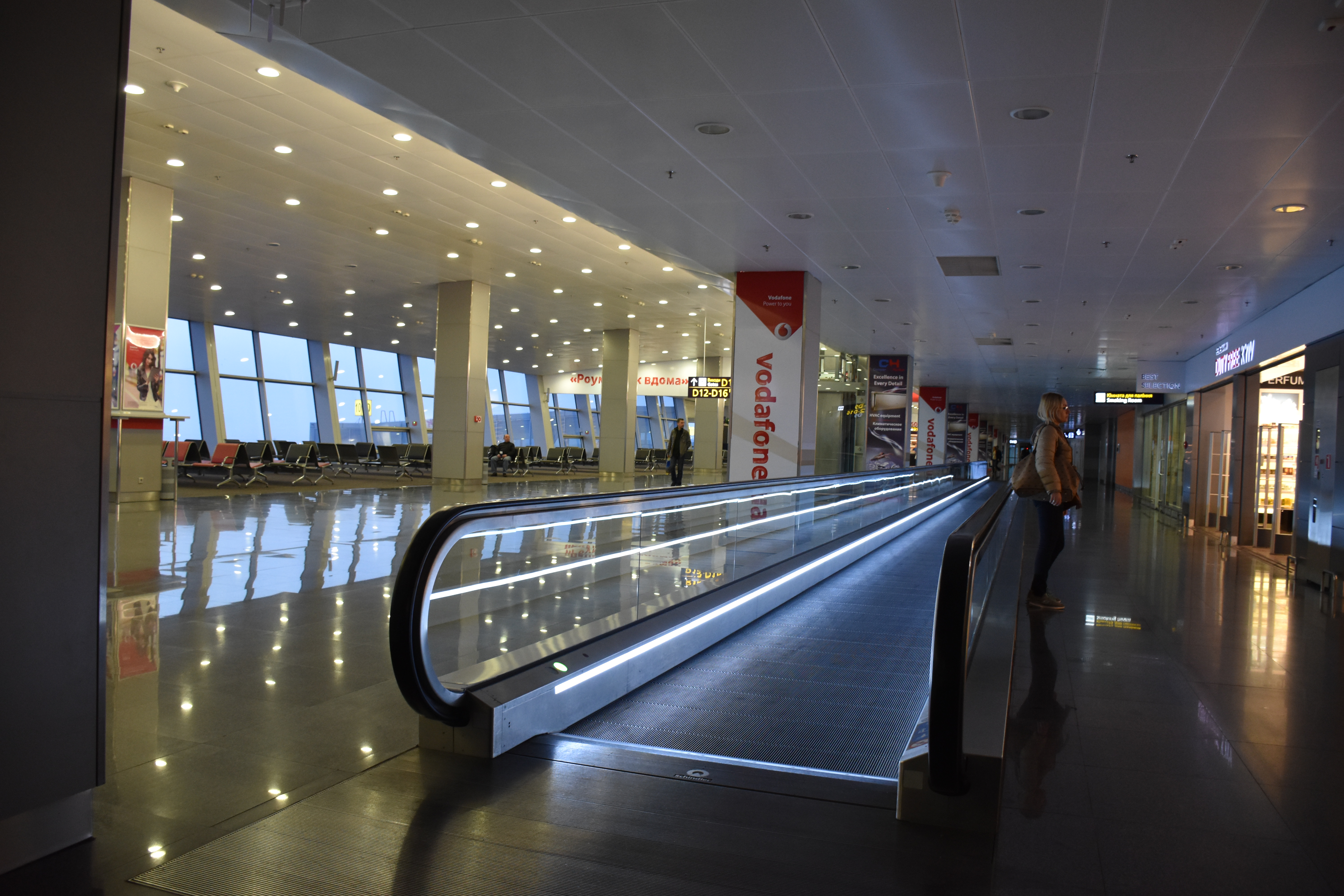 Moving walkway at Terminal D of Boryspil Airport.